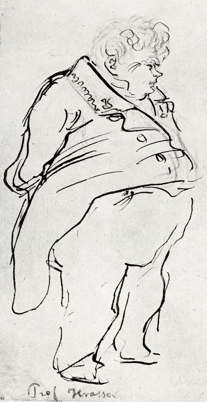 Israel Hwasser (1790-1860)